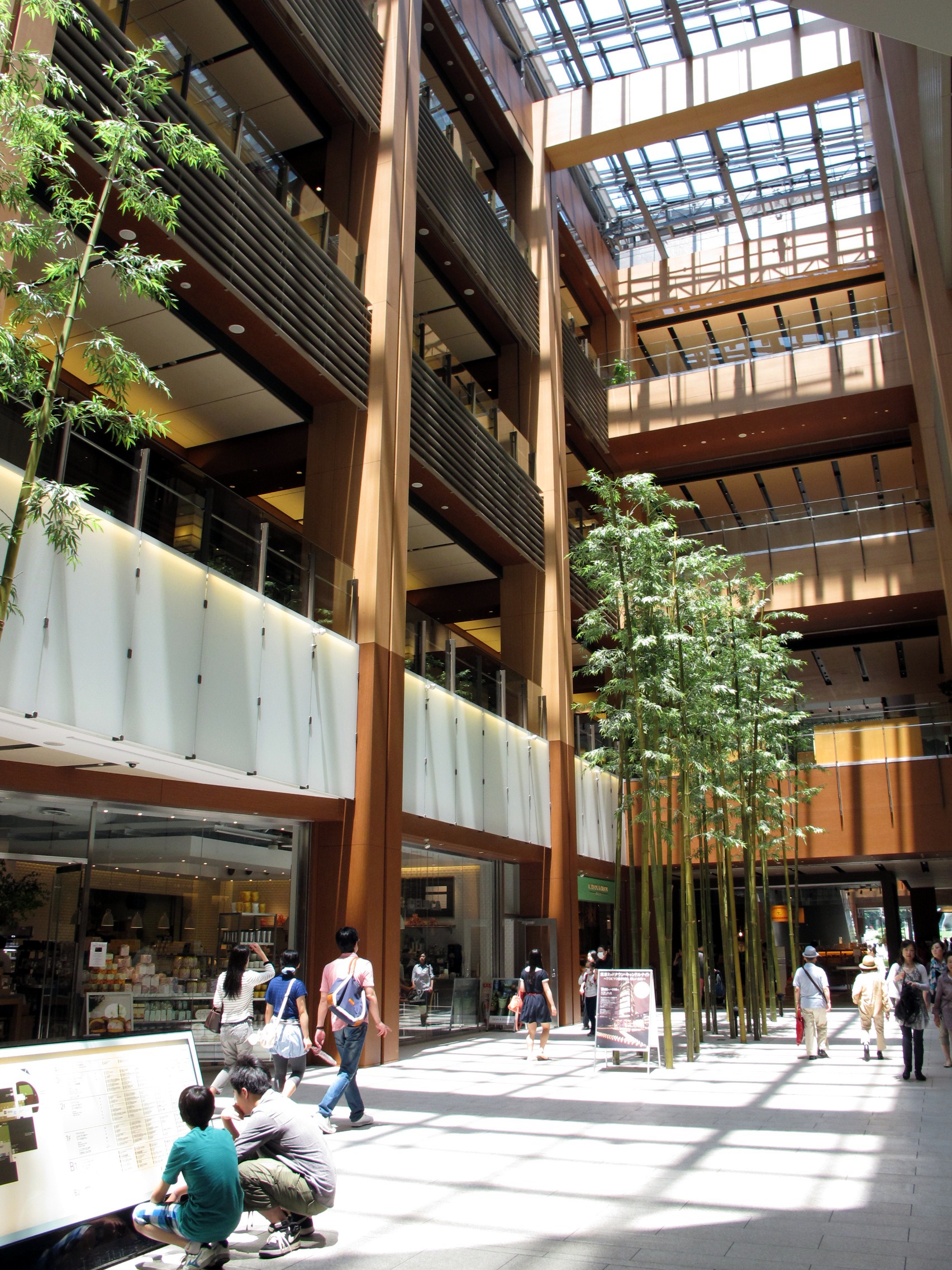 Tokyo Midtown Galleria Atrium